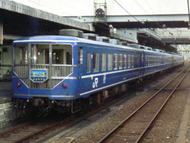 JR Central 12 series observation coach forming part of the "Ozashiki" Joyful Train at Takasaki Station